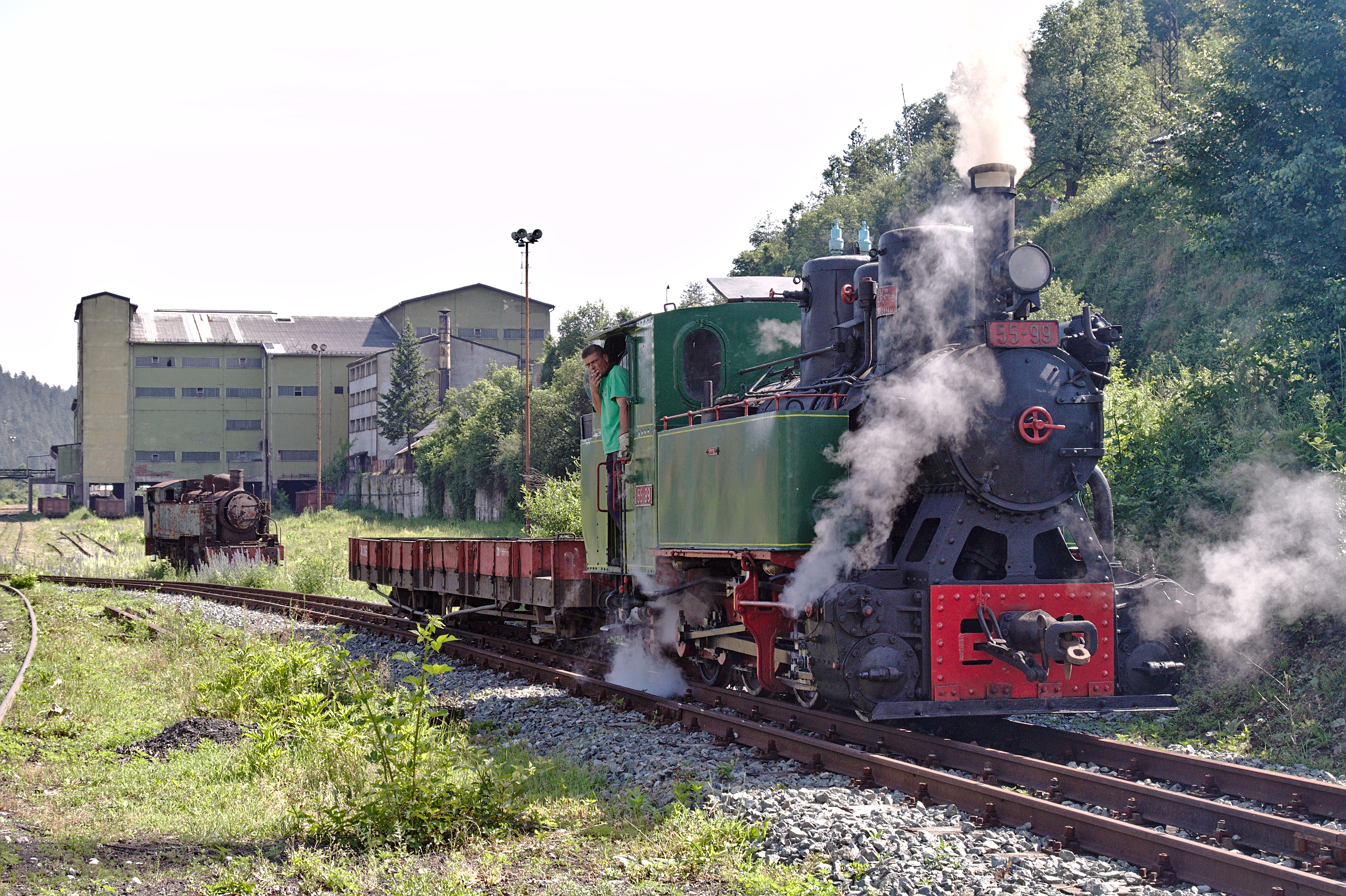 RMU Banovići 55-99 (MÁVAG class 70) with at Oskova on the Banovići colliery railway. In the background the loading facilities can be seen.